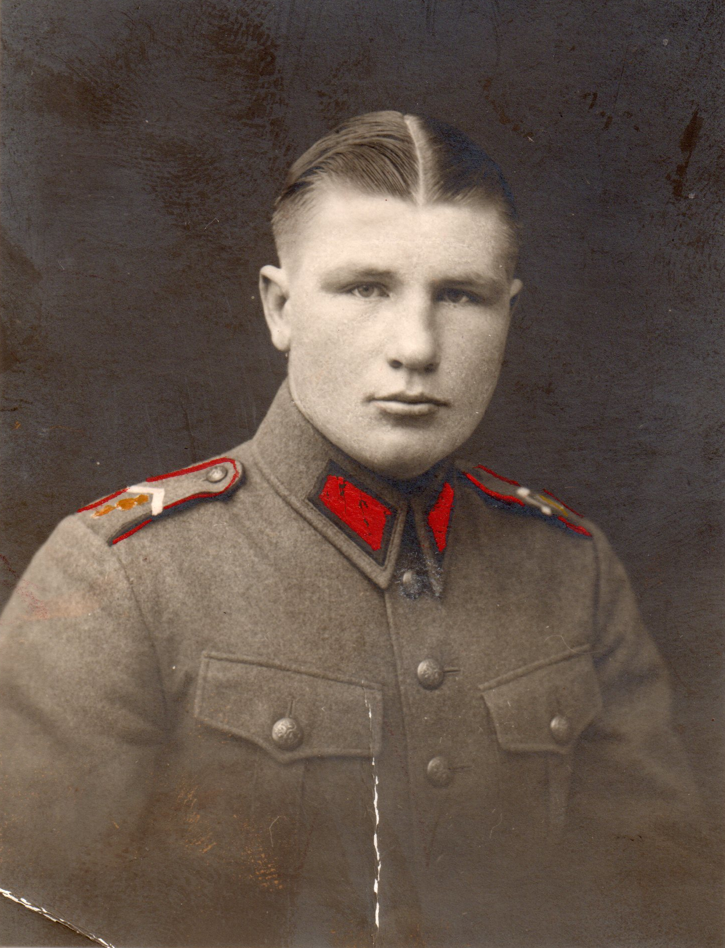 Viljo Suhonen, army service photo